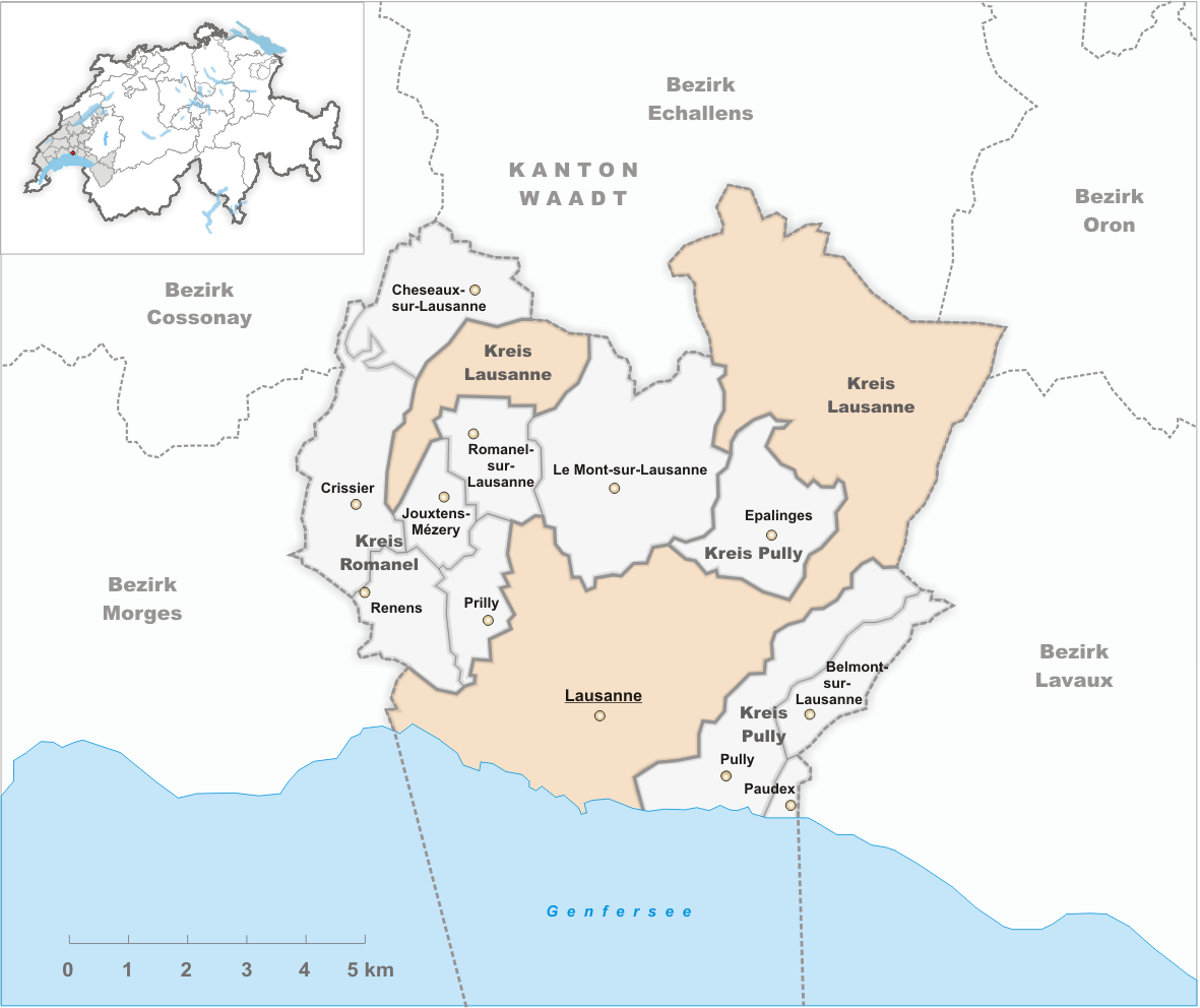 Municipality Lausanne